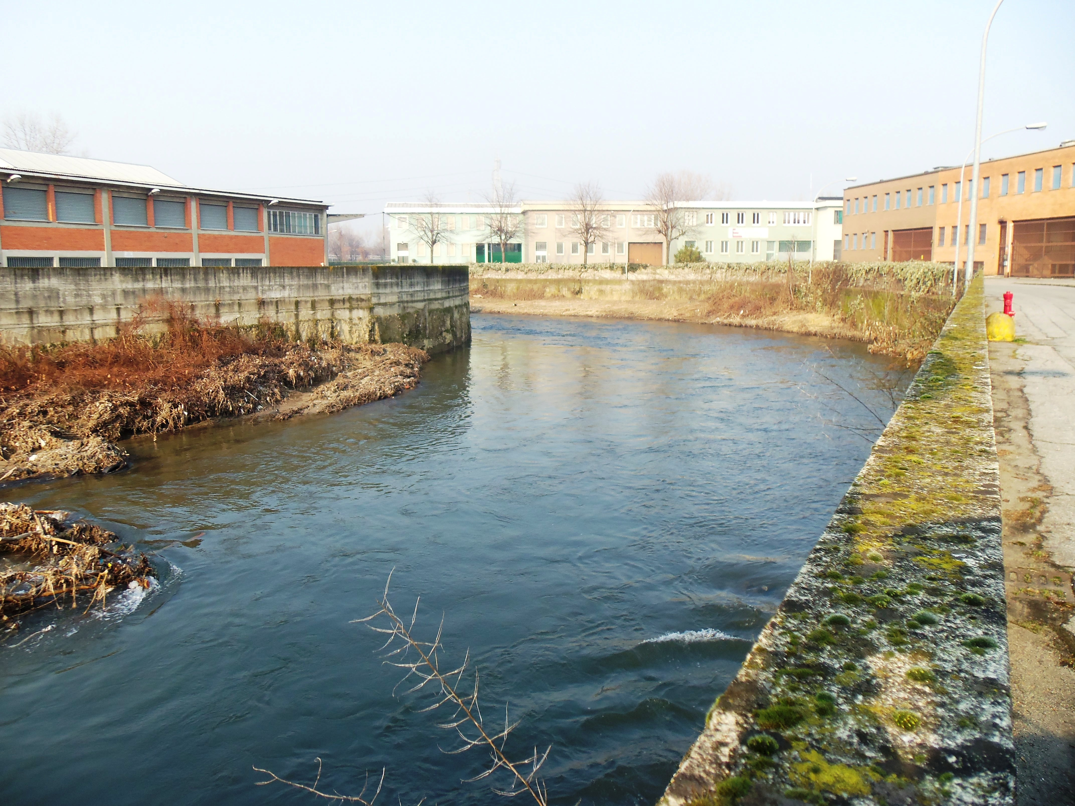 Cologno Monzese, the Lambro river